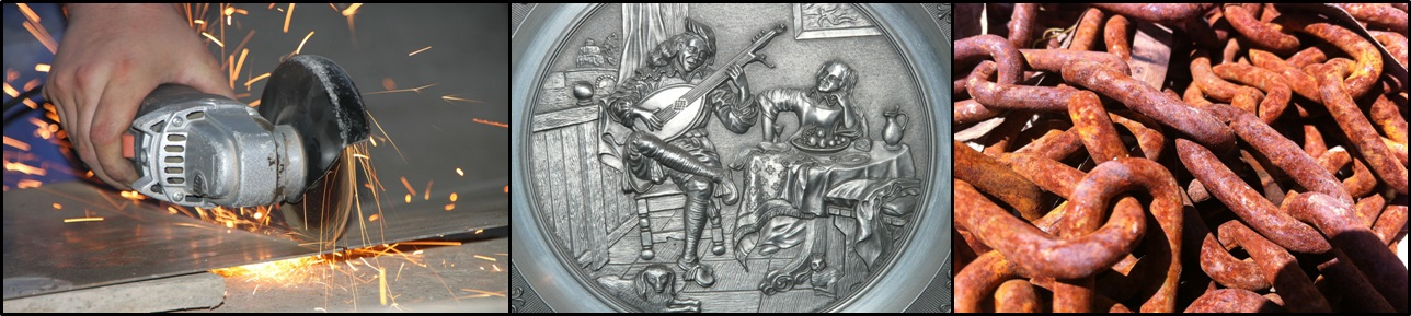 The iron have three changes: Physical (cut the iron), Physical-chemical (Molted iron) and Chemical (oxidation of the iron)